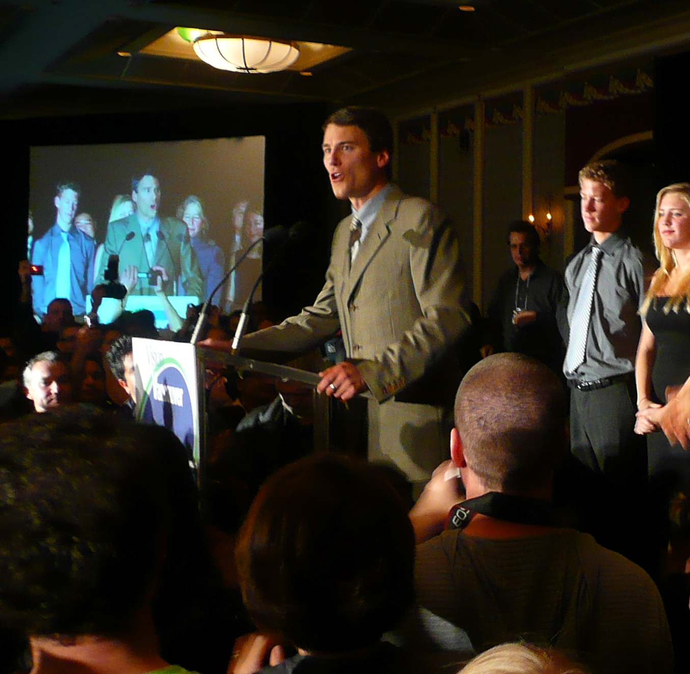 Gregor Robertson mayor of Vancouver